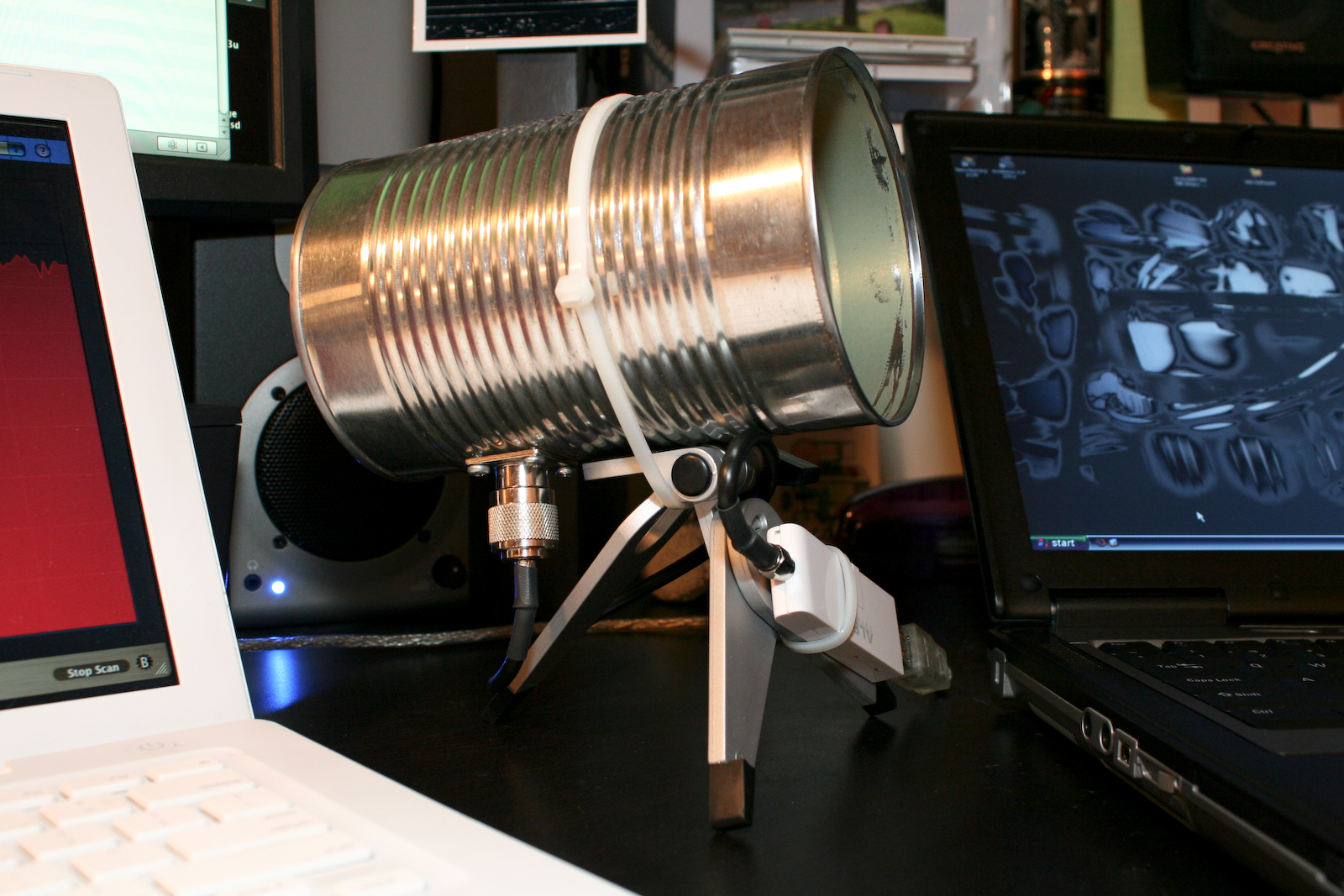 Another cantenna project. A friend of mine is the director of a local non-profit organization in Ashtabula County, and they had permission to share Wi-Fi from a nearby church but couldn't get a signal. I built a cantenna which solved the problem. This one is mine which I built for fun, but they'll be borrowing it for a few weeks while they have an intern working for them. Building these has been a lot of fun and it's nice to see them used for a good cause. This one is mounted to a $2 camera tripod I picked up at Micro Center. An ALFA Network AWUS036EH 802.11b/g USB adapter (which has an SMA connector) drives the whole thing. I haven't had a chance to test it to any great extent, but Kismac does seem to pick up on more activity with this adapter than with my customized Linksys WUSB11 2.5. The ALFA adapter uses an RTL8187 chipset which is supported in Kismac 0.21a revision 319. I used this website as my guide for building the cantenna: I've uploaded my cantenna photos at a larger size than I normally do for the benefit of anyone who is thinking of building one. It's pretty easy, but you'll need a soldering iron and drill, and if you want to clean up the edges of the can a Dremel is handy too. Have fun if you try this!